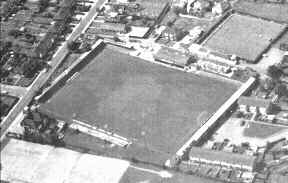 Aerial View of Sheppey United's original ground Botany Road